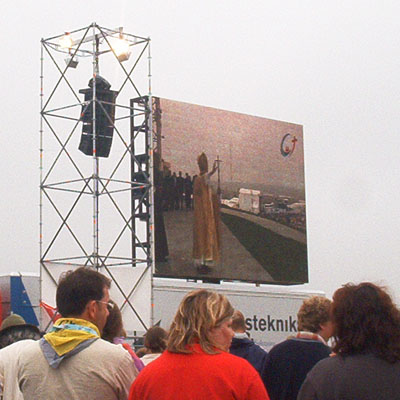 Pilgrims watch Pope Benedict XVI on big screens as he says mass.